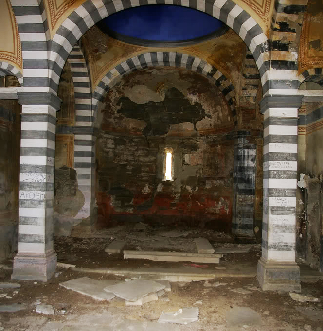 The inside of the Church of St. Biagio in Brento Sanico.